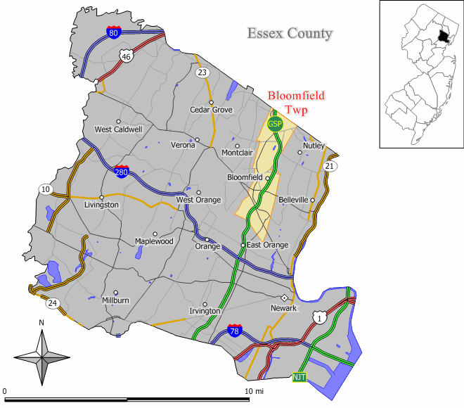 Source: Jim Irwin Original work by Jim Irwin, December 2005.